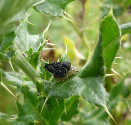 Cassida rubiginosa larva carrying a package of frass and sitting on a Cirsium arvense leaf, Southland, New Zealand